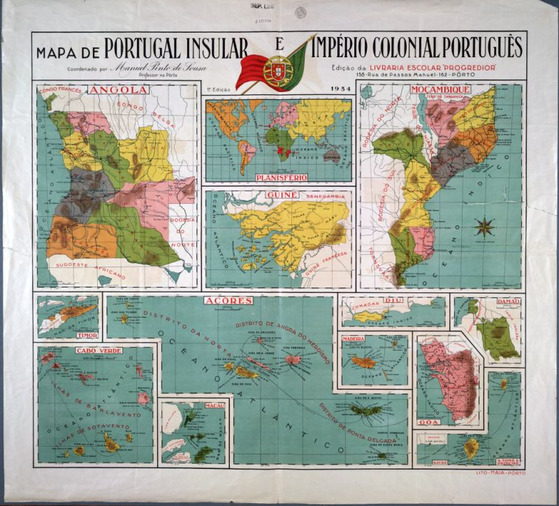 Map of Portugal's islands and its empire of 1934